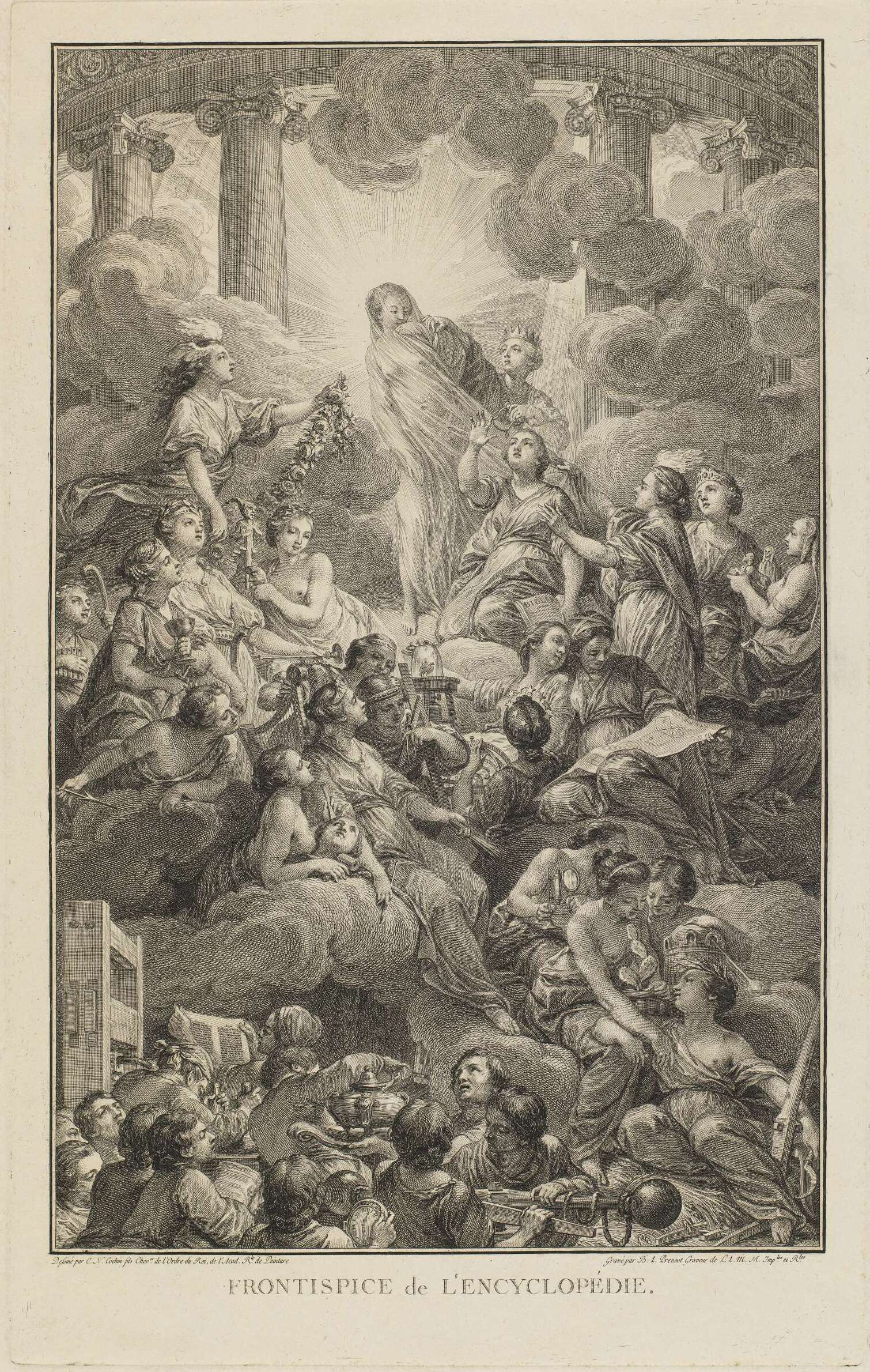 Encyclopedie's frontispiece, full version. Engraving by Benoît Louis Prévost.